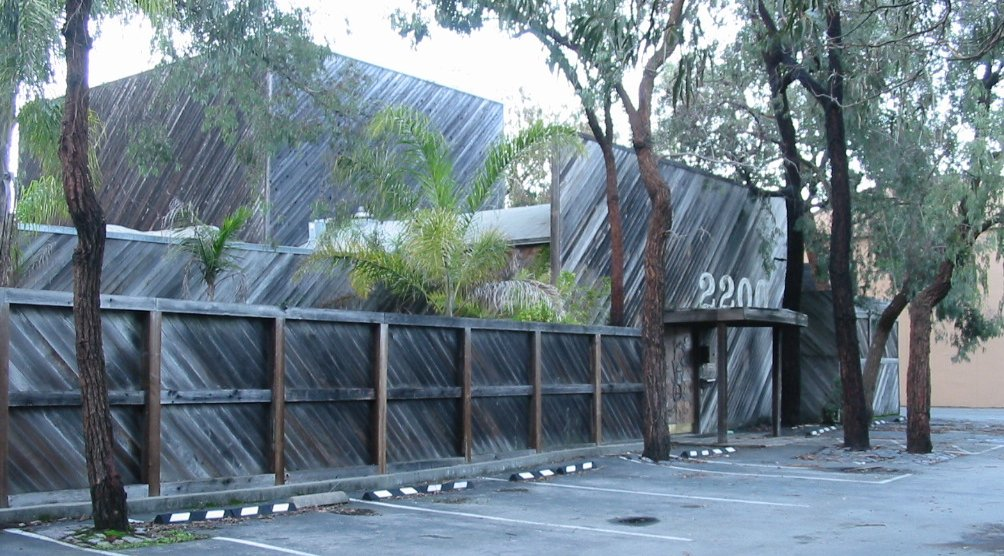 Snapshot of the Record Plant, a.k.a. The Plant, a recording studio in Sausalito, California. Photo shows the front face of the building.